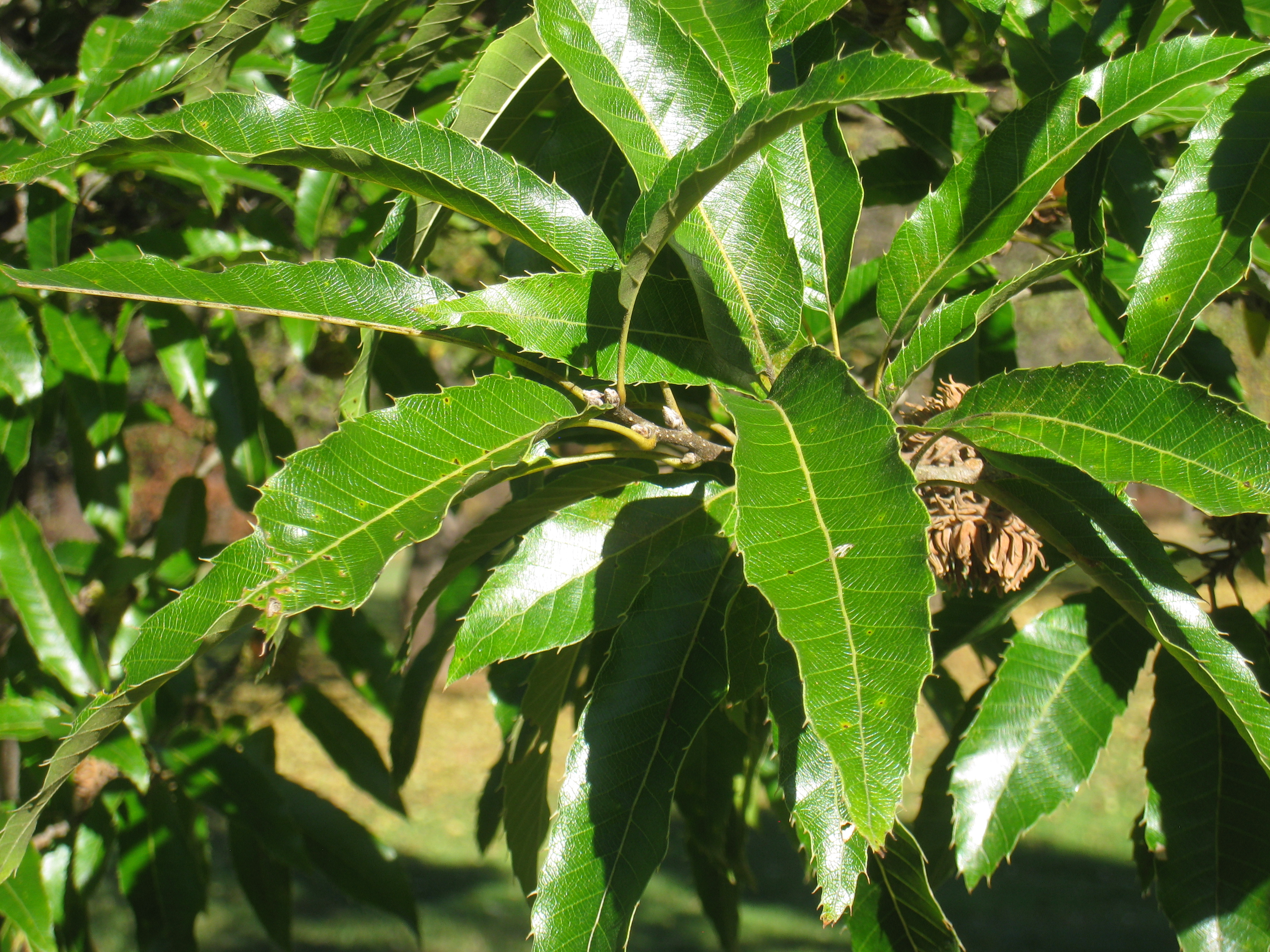 Quercus acutissima specimen in Lasdon Park and Arboretum, Somers, New York, USA.